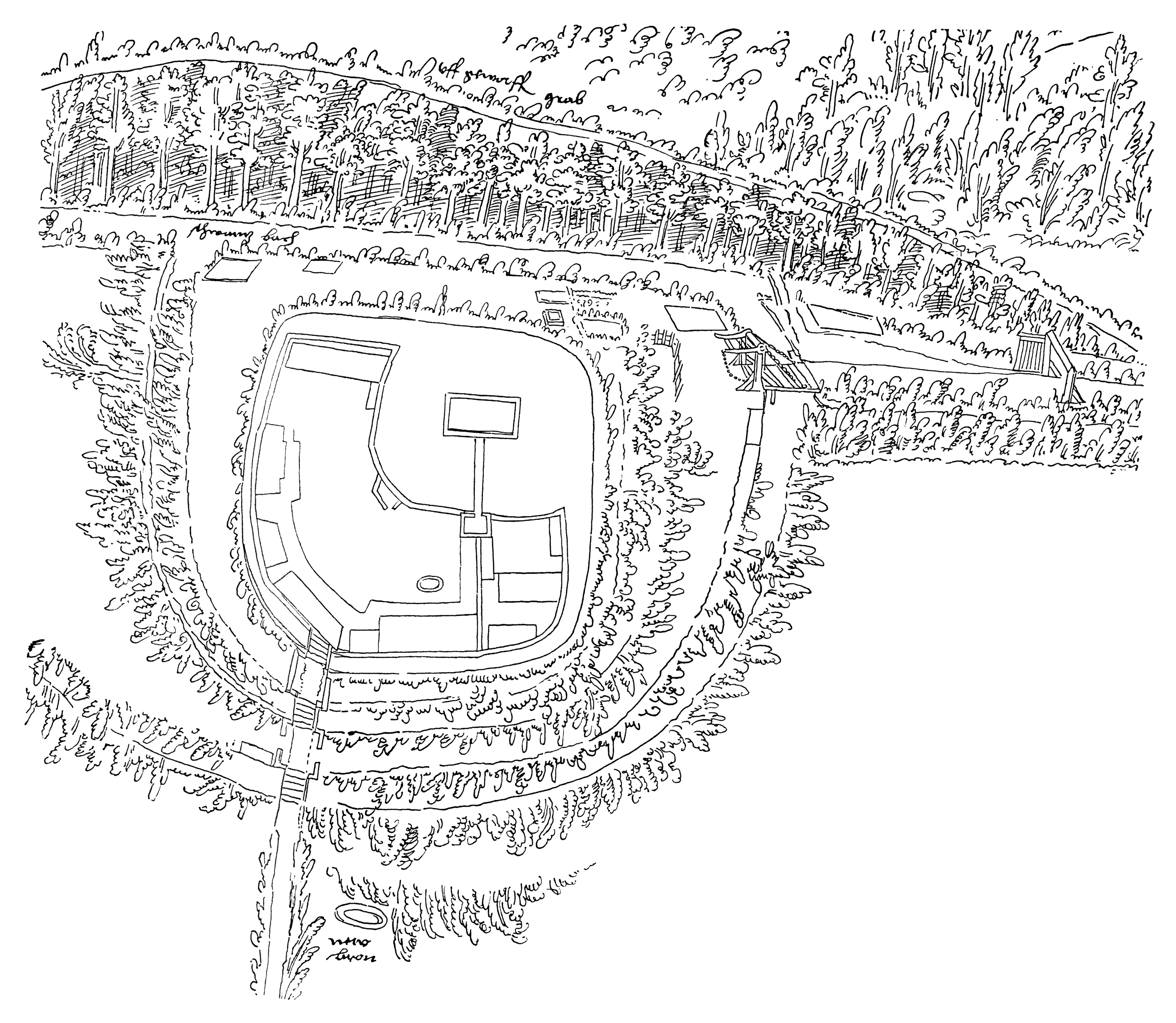 Drawing by Julius Hülsen from 1914 according to an historical plan of an unknown artist dated around 1575.